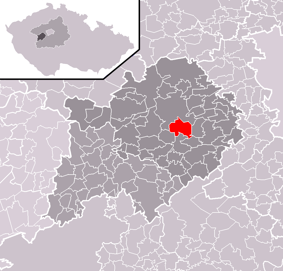 Location of Tetínmunicipality within Beroun District and administrative area of Beroun as a Municipality with Extended Competence.